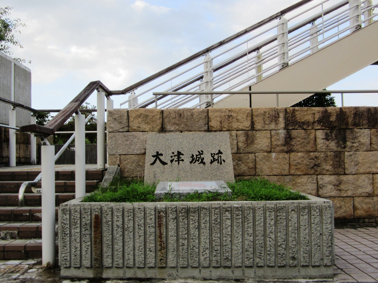 The Site of Ōtsu Castle in Ōtsu, Shiga.